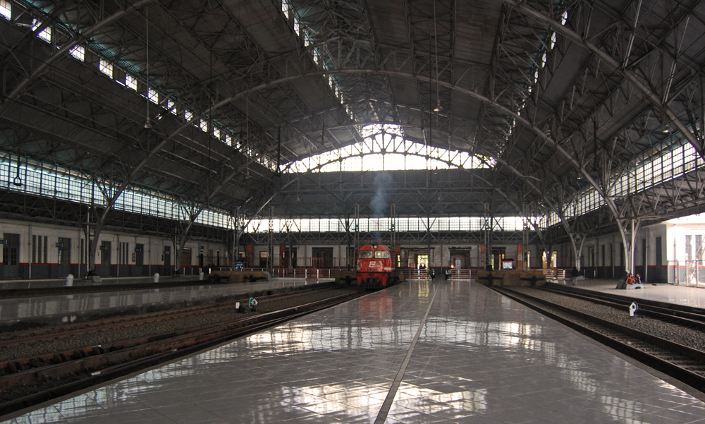 Tanjung Priok (TPK) train station at Jakarta. Interior, with BB 306-08 diesel locomotive.